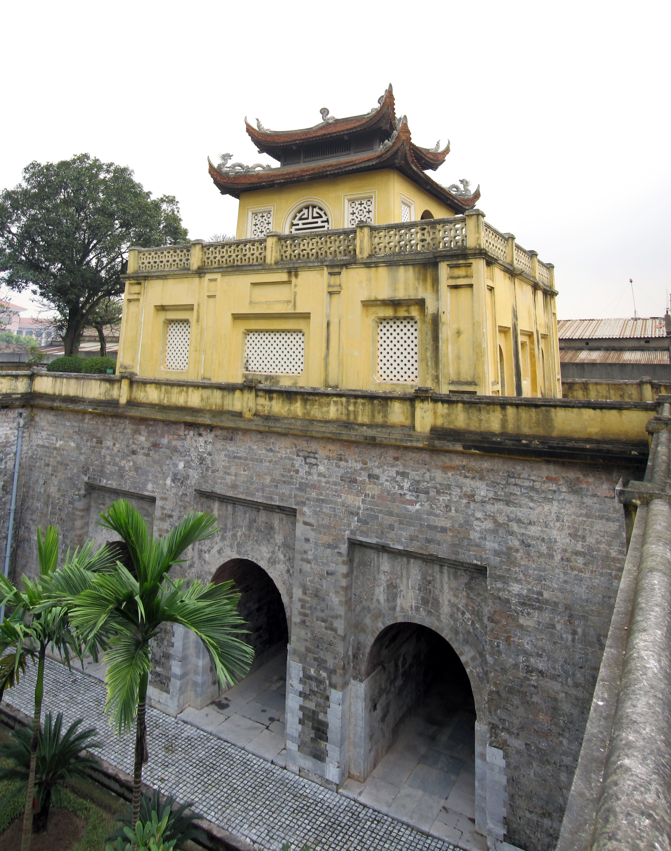 Hanoi Citadel